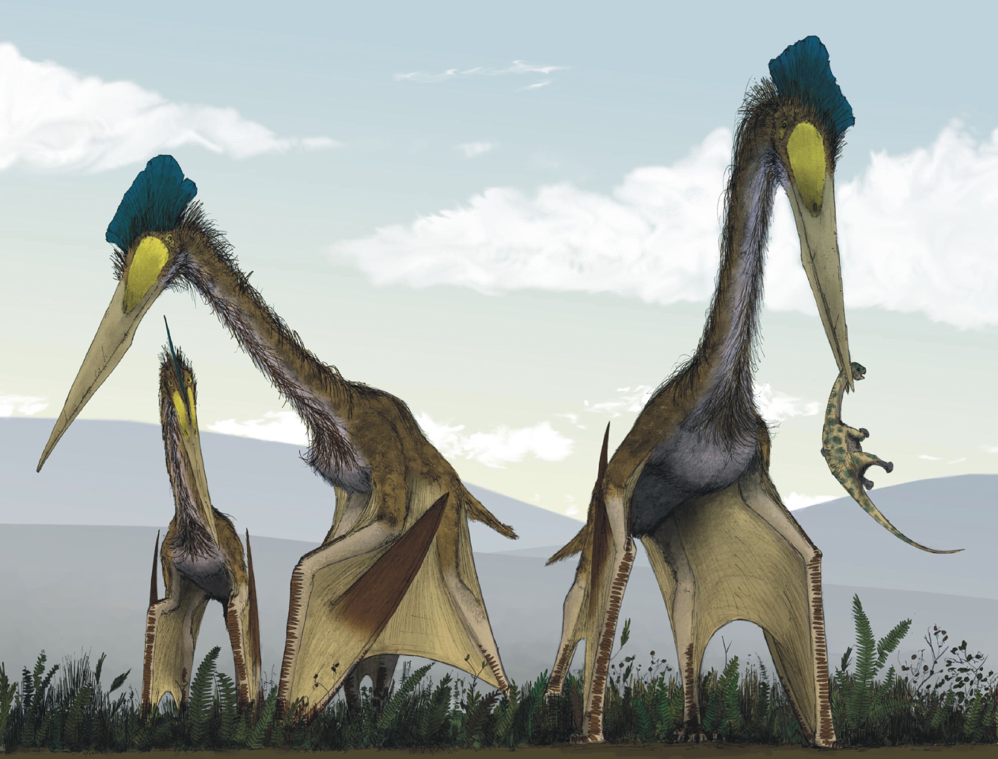 Life restoration of a group of giant azhdarchids, Quetzalcoatlus northropi, foraging on a Cretaceous fern prairie. A juvenile titanosaur has been caught by one pterosaur, while the others stalk through the scrub in search of small vertebrates and other food.